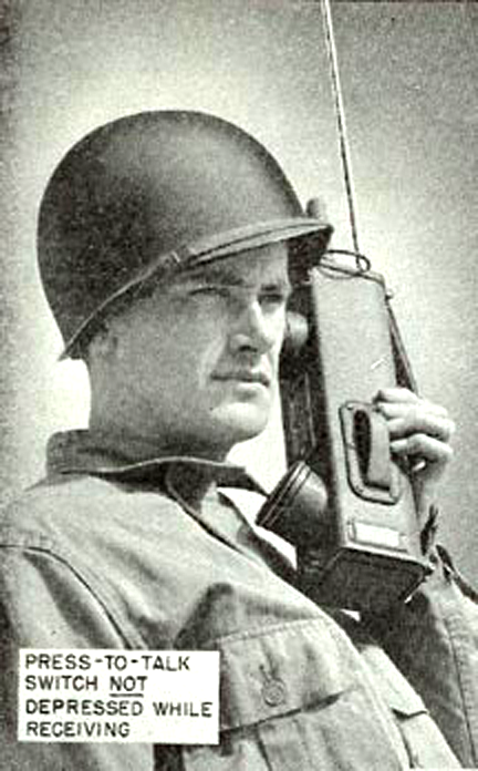 SCR536 US Signal Corps "Walkie Talkie"